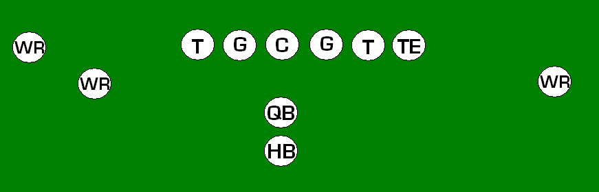 Scheme of a typical pistol formation